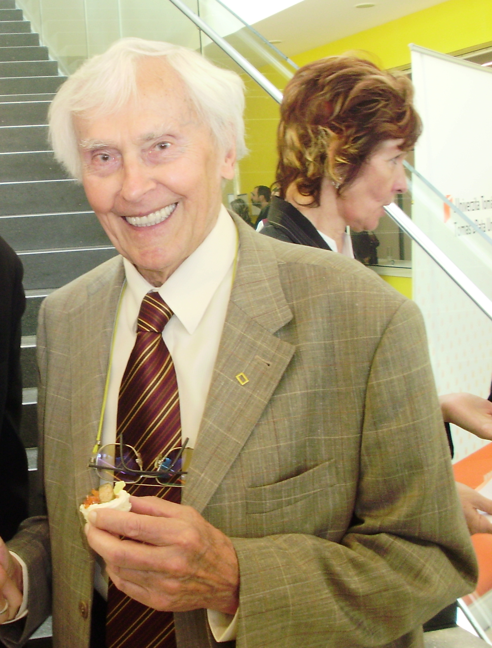 Miroslav Zikmund in Zlín.